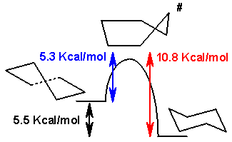 Twist-boat chair interconversion